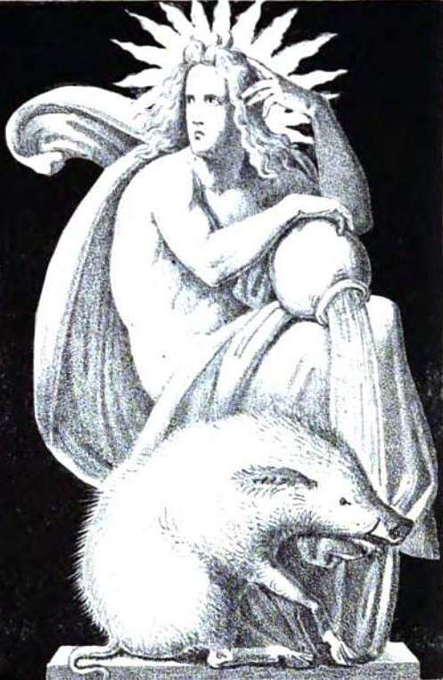 The caption for this illustration reads "Freyr". The artist is uncredited. Please replace with a higher quality version if possible. This version was taken from a low quality scan found in a PDF version of the source.